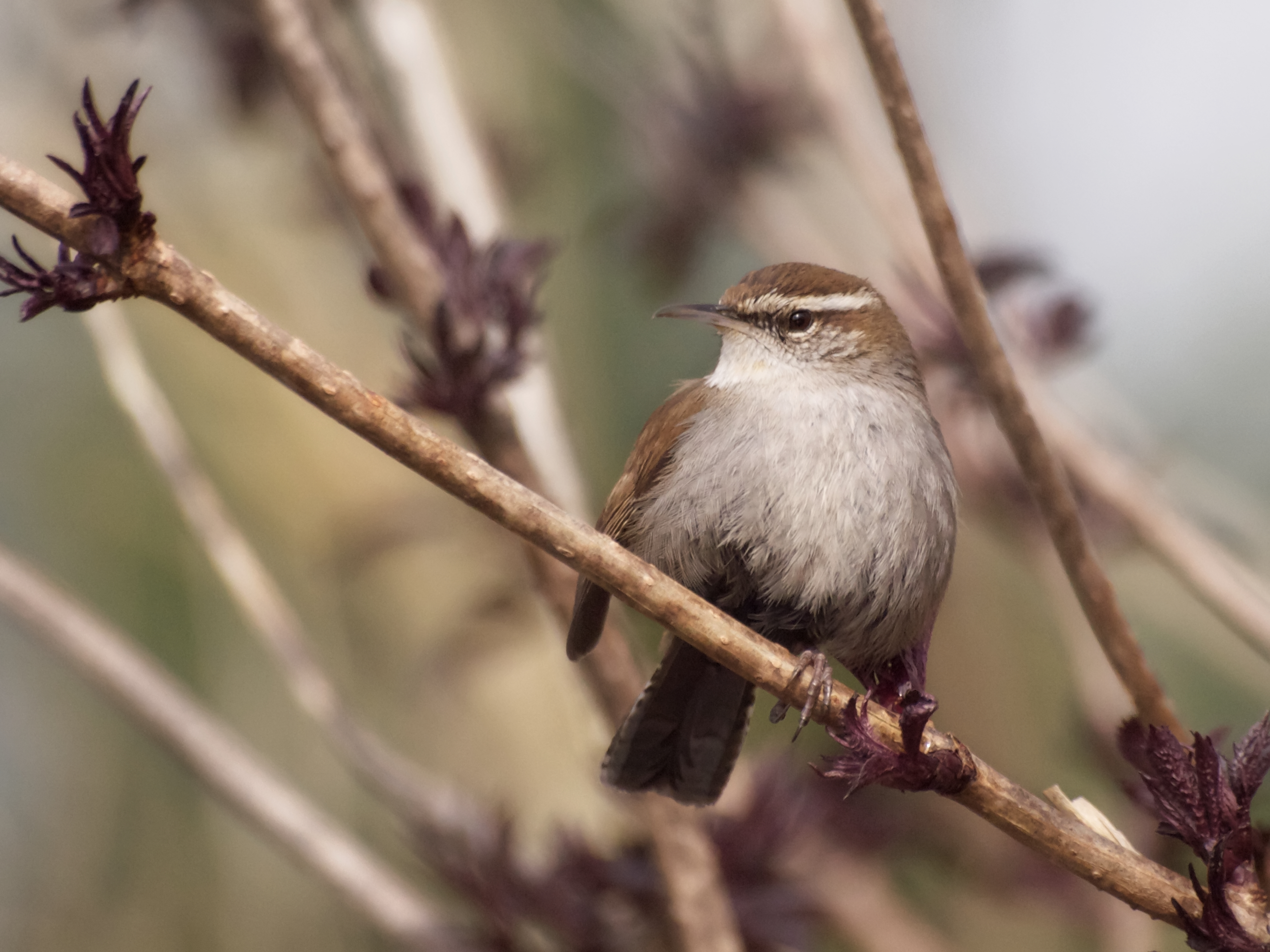 Bewick's Wren Thryomanes bewickii calophonus in Normandy Park catching a fleeting ray of Seattle sun.